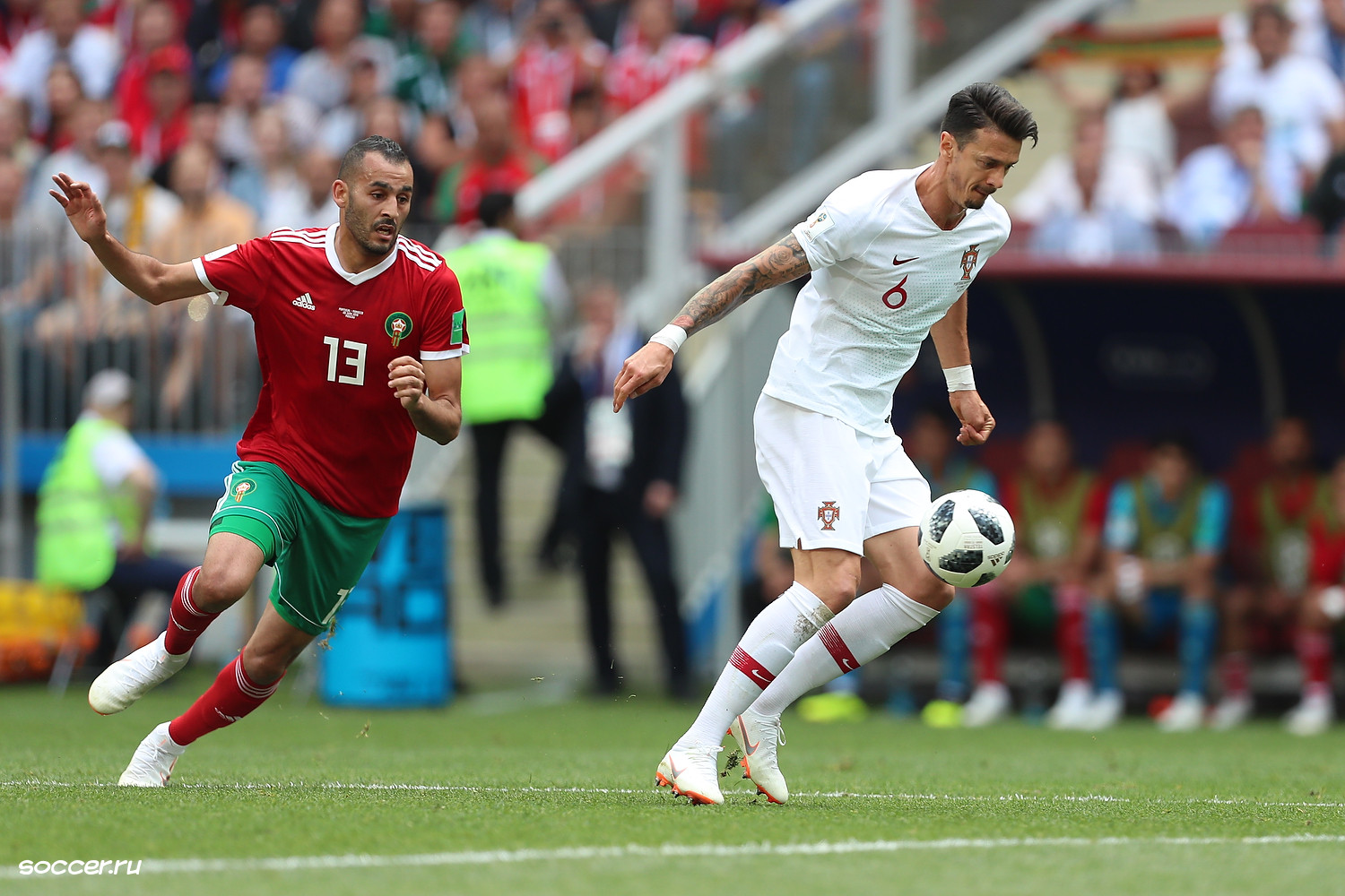 Portugal-Morocco match, 2018 FIFA World Cup